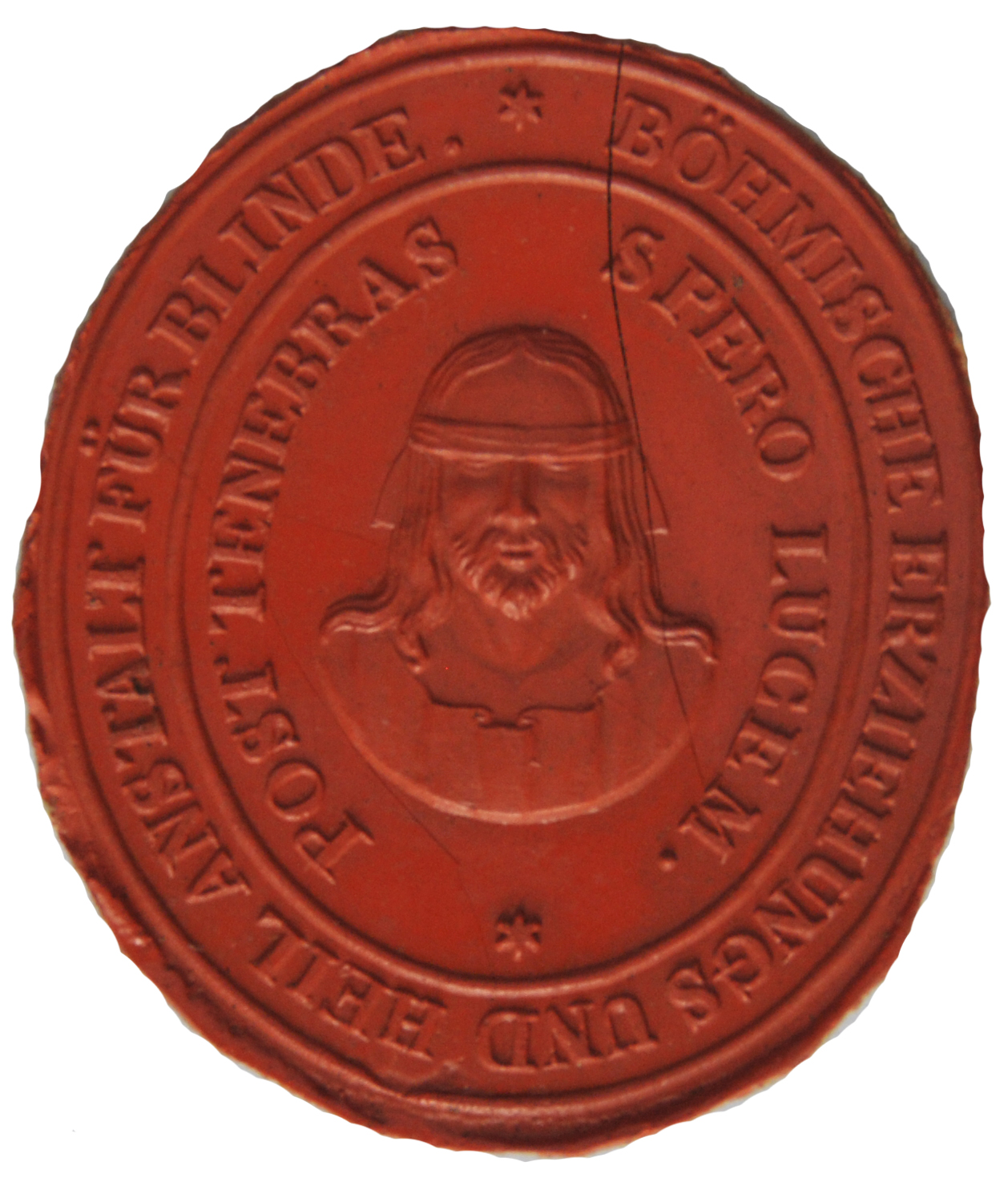 Seal of the Prague Institute for the Blind, ca. 1840